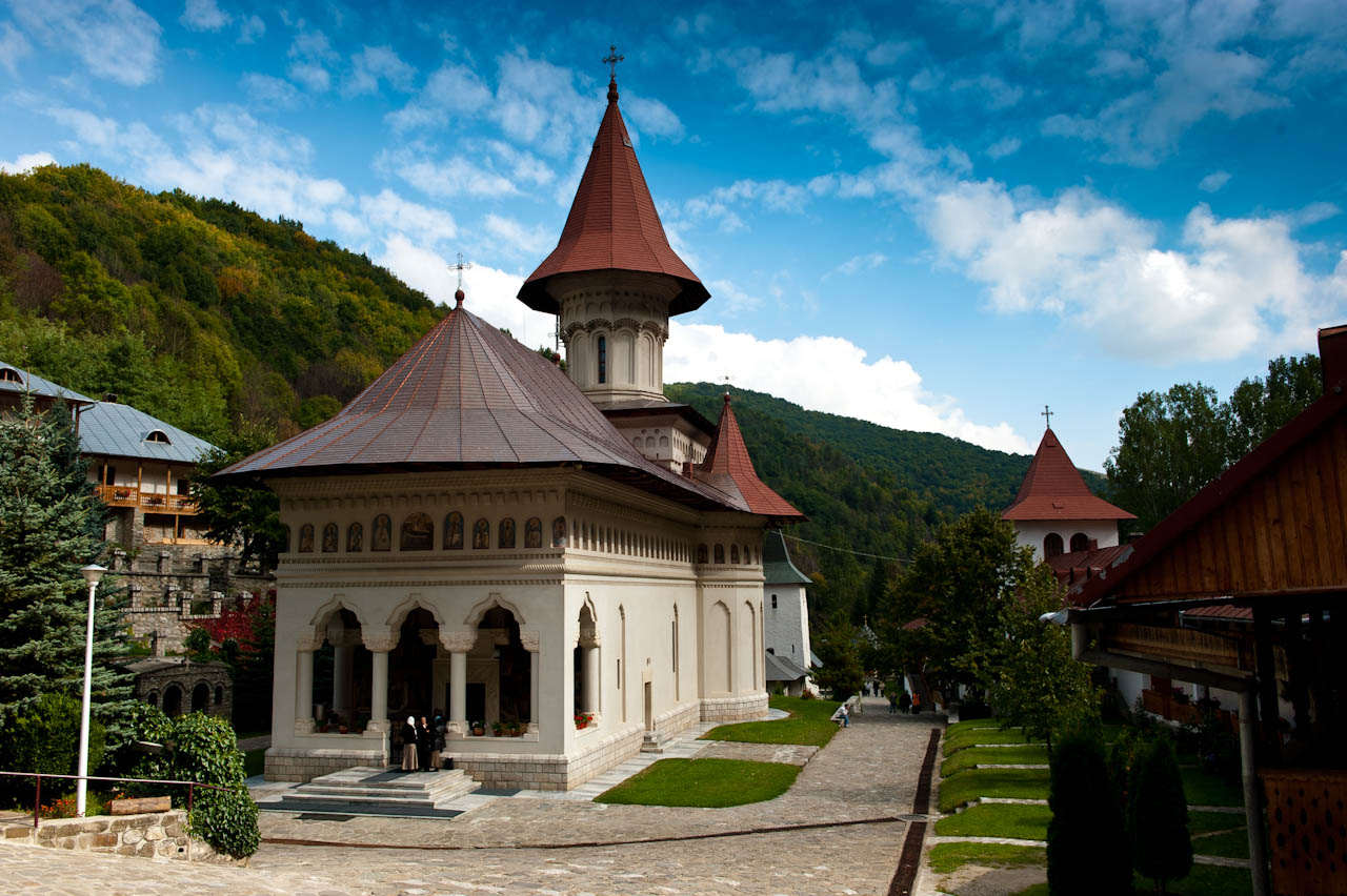 Monastery Râmeț